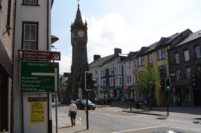 Machynlleth Town Clock